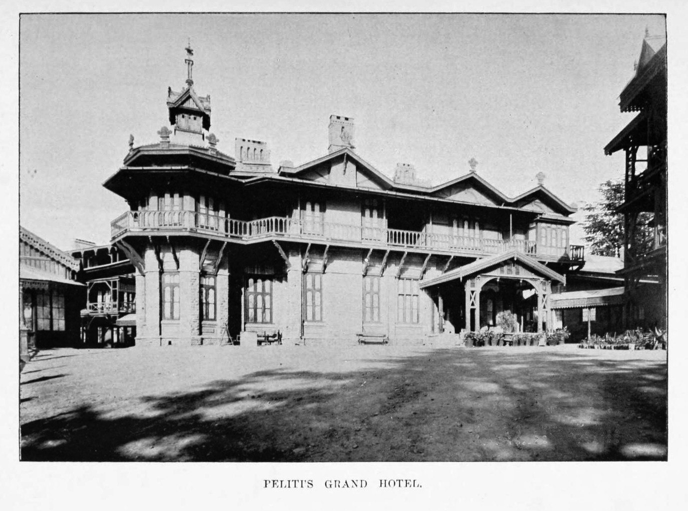 Peliti's Grand Hotel, Simla